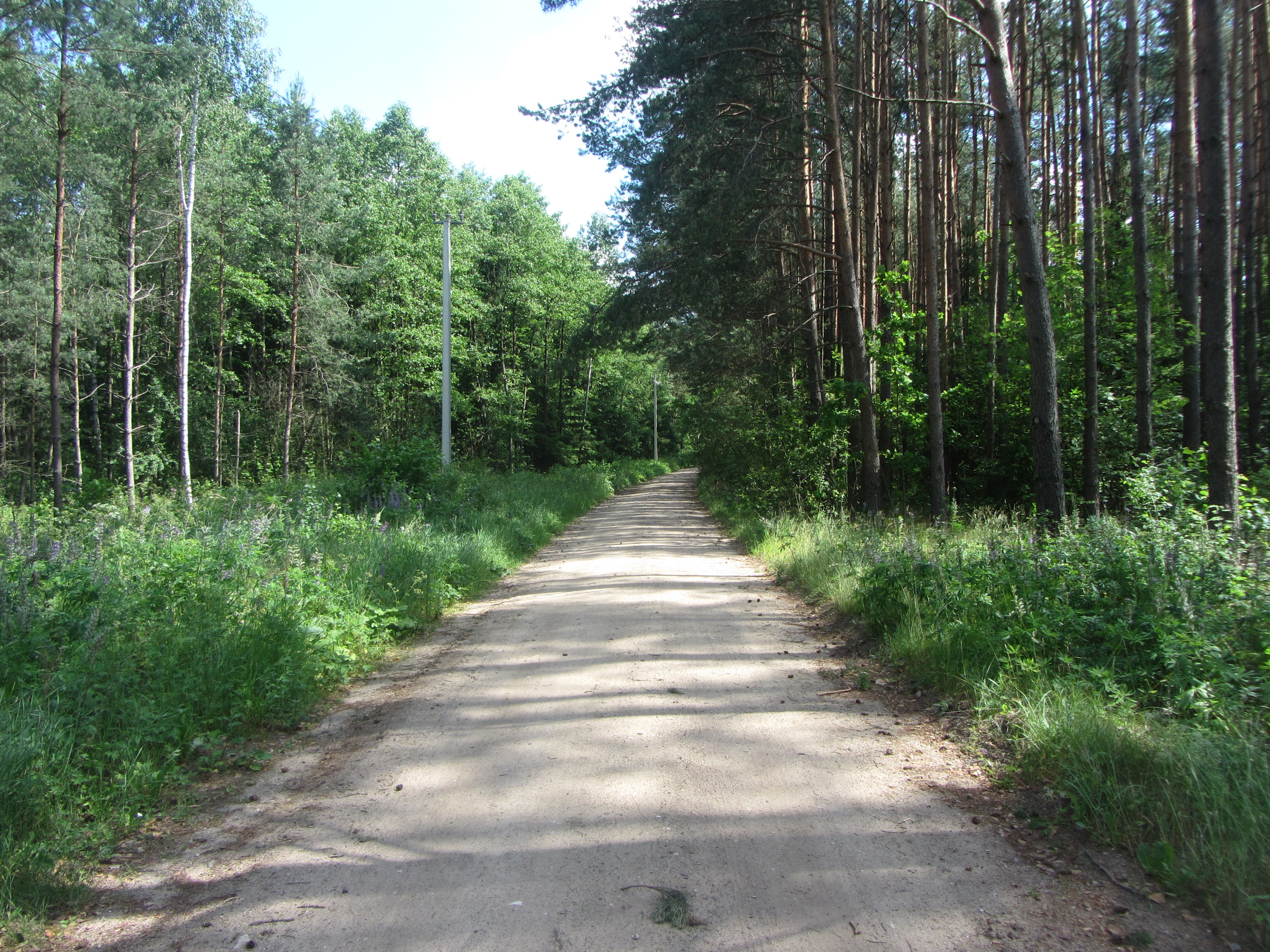 Birštono sen., Lithuania